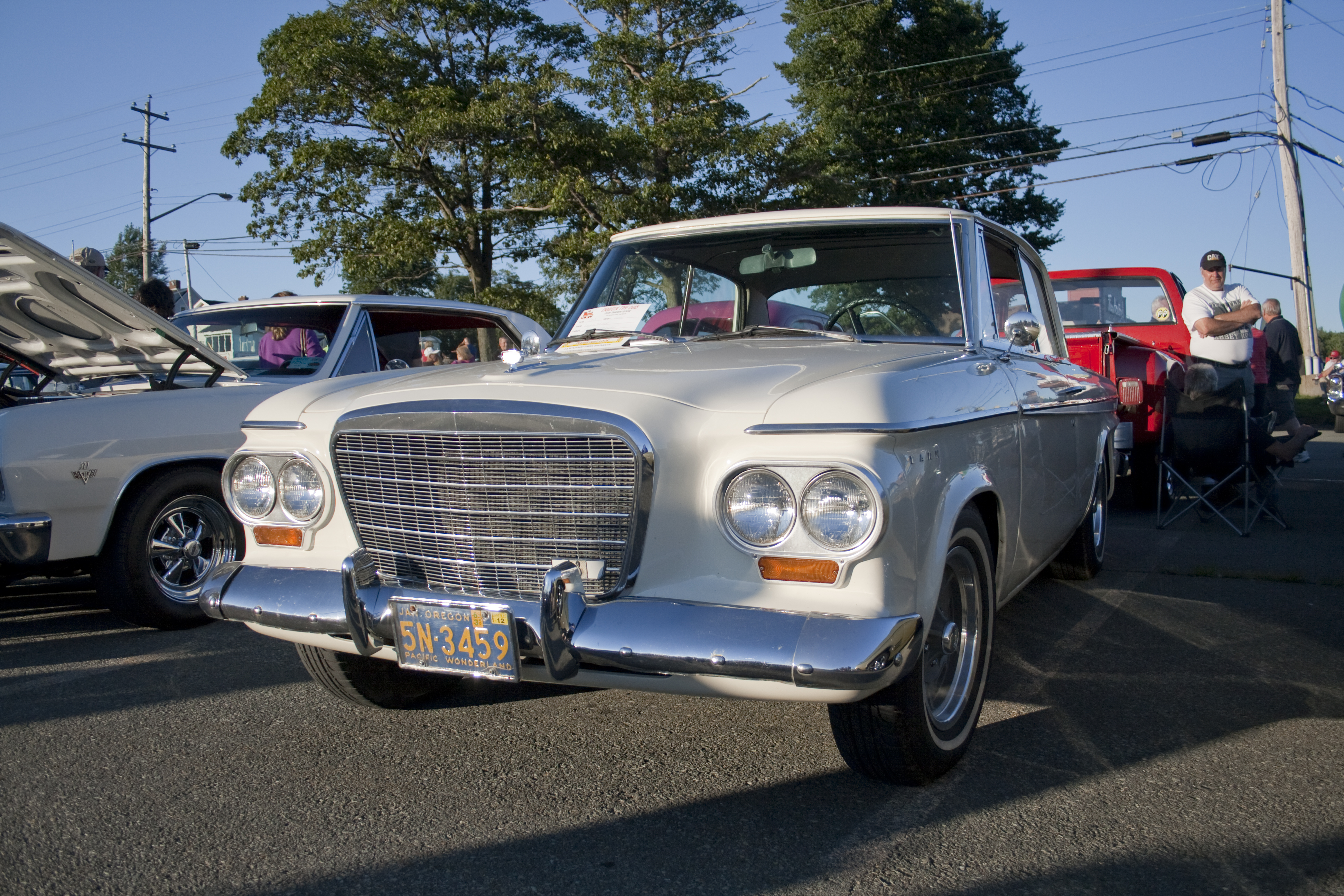 1963 Studebaker Lark Sedan